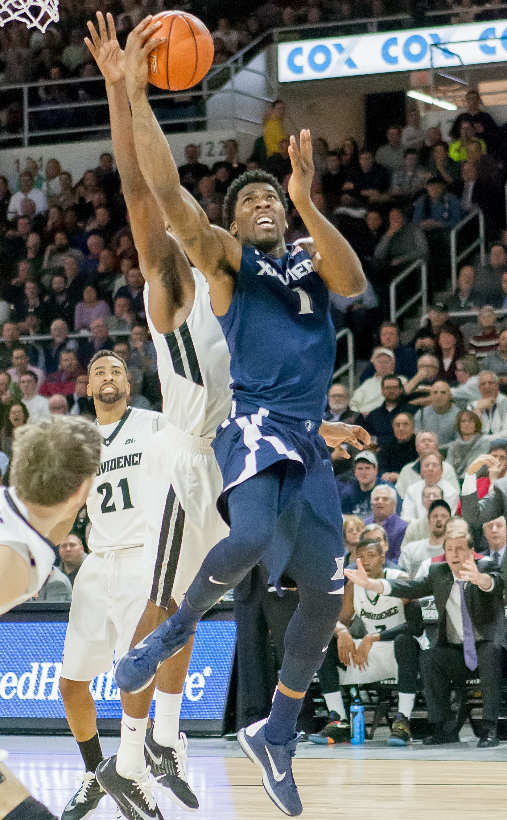 January 26, 2016. Dunkin' Donuts Center, Providence, RI. Photo: ©KJ Sports Pics